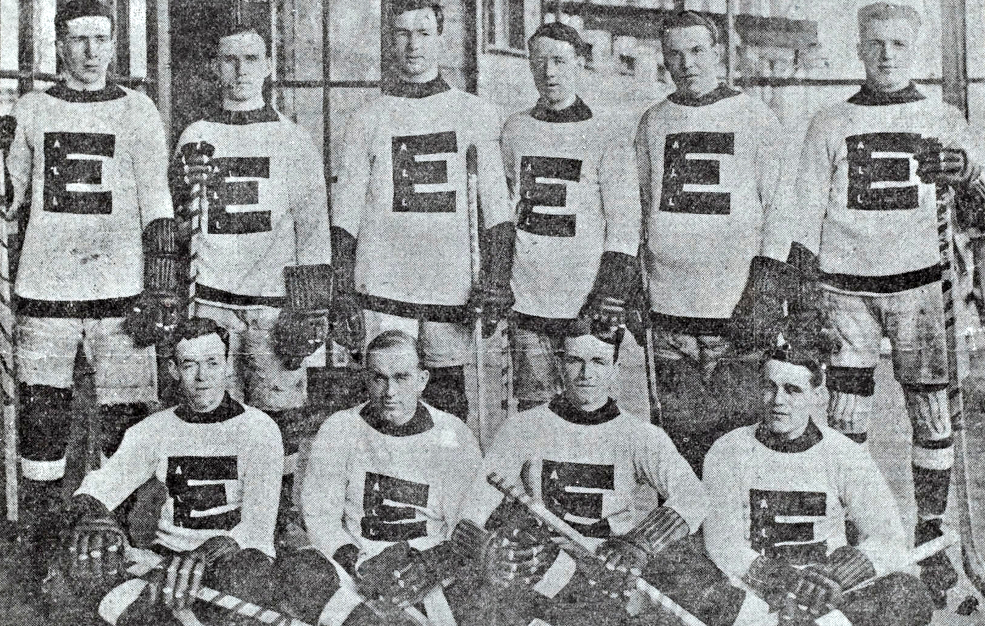 1912 Eastern ice hockey All Star Team, composed by players from teams in the National Hockey Association. This team played against a Western All Star Team composed by players from the west coast league Pacific Coast Hockey AssociationTop row, from left: Sprague Cleghorn, Hamby Shore, Art Ross, Skene Ronan, Paddy Moran, Odie CleghornFront row, from left: Jack McDonald, Fred "Cyclone" Taylor, Jack Darragh, Joe Malone.